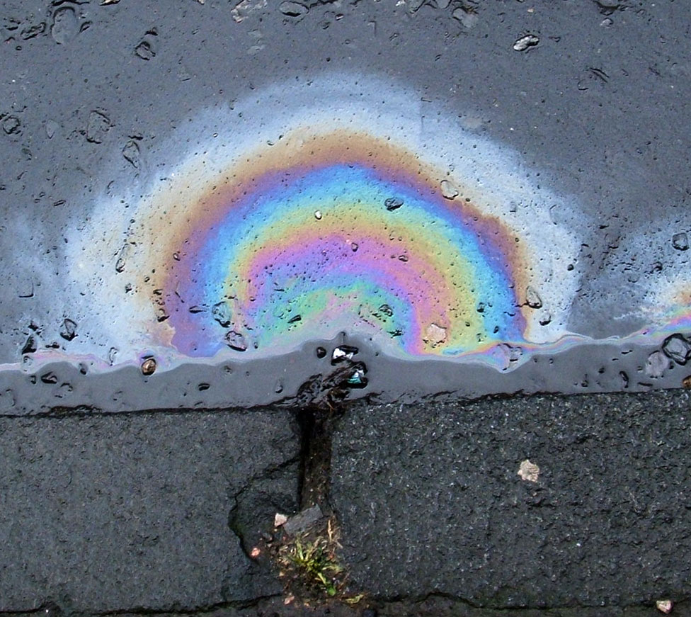 Diesel spill on a road.